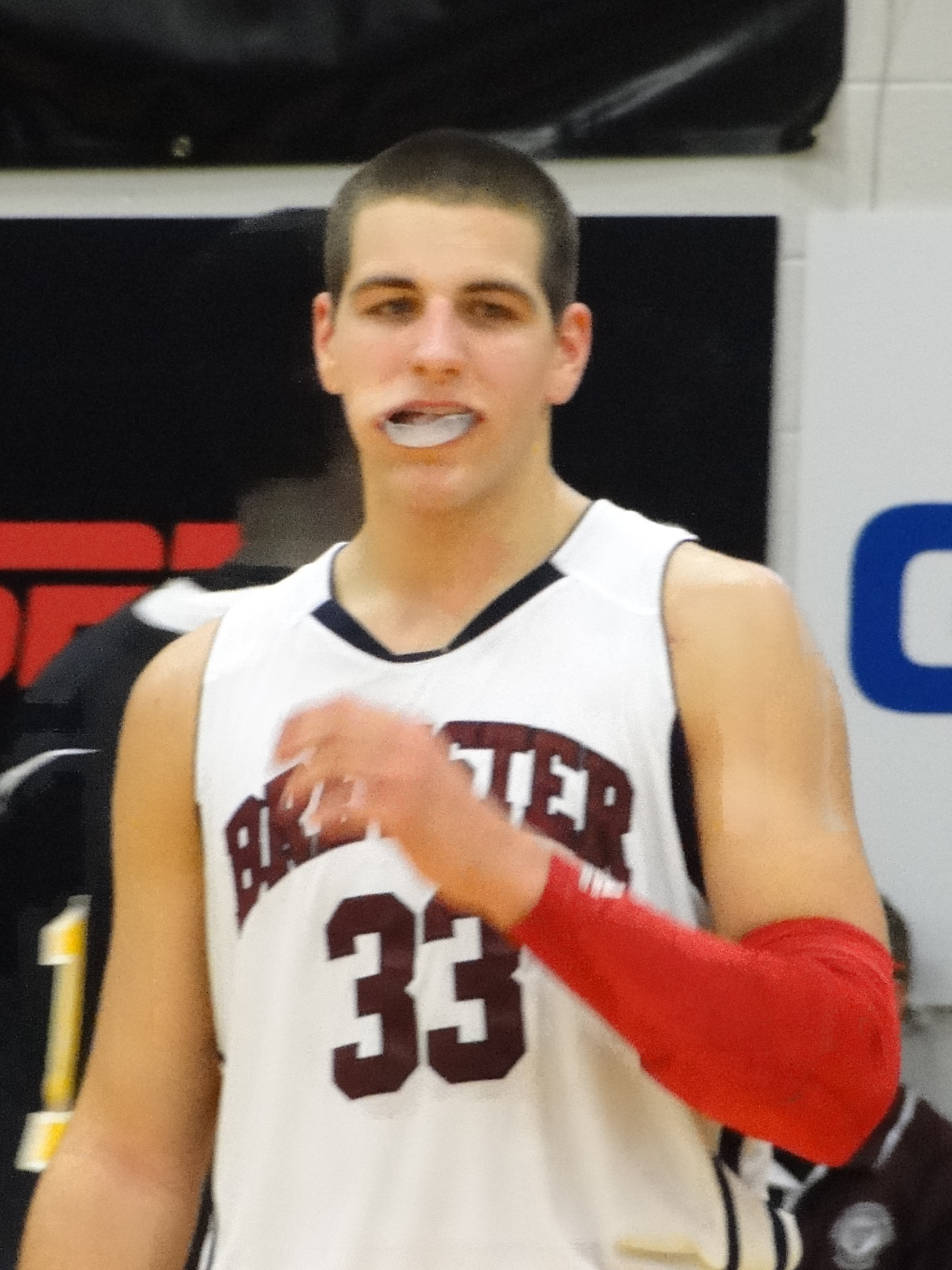 Mitch McGary at Hoop Hall Classic